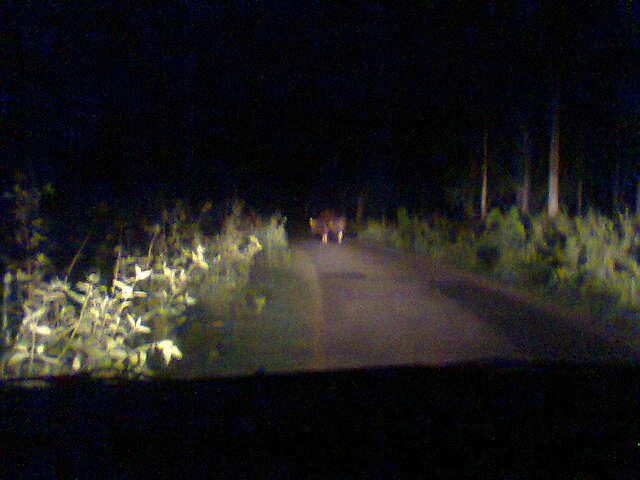 Wild Guars blocking passing vehicles